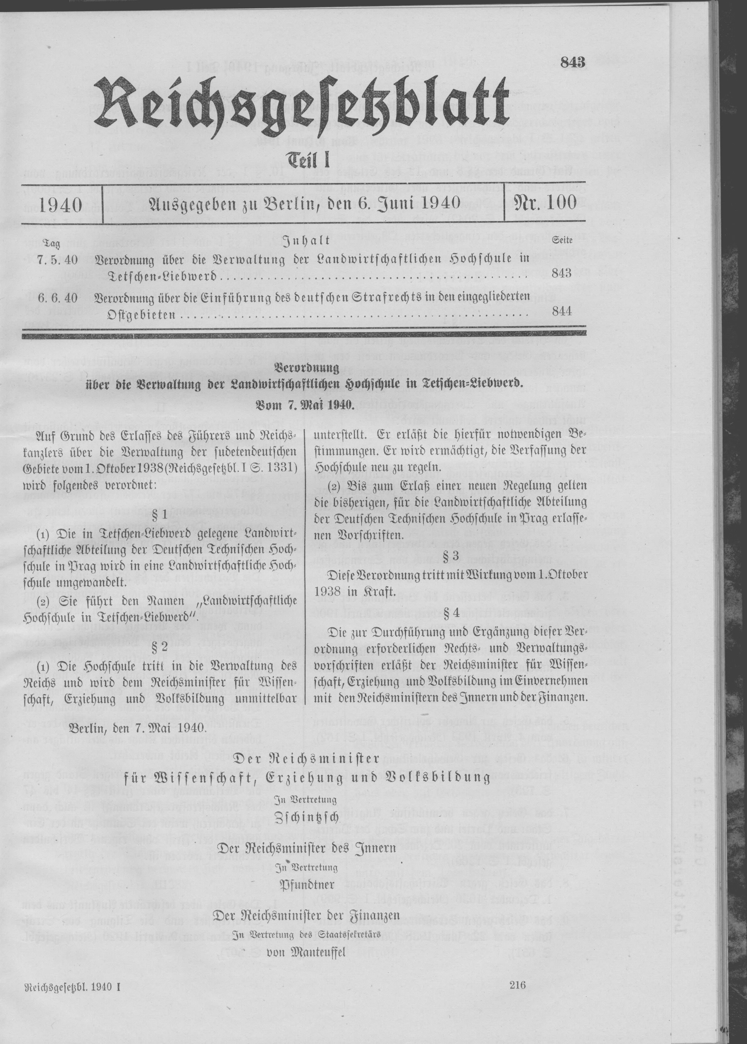 Scan from the Imperial Law Gazette of Germany, 1940, part 1